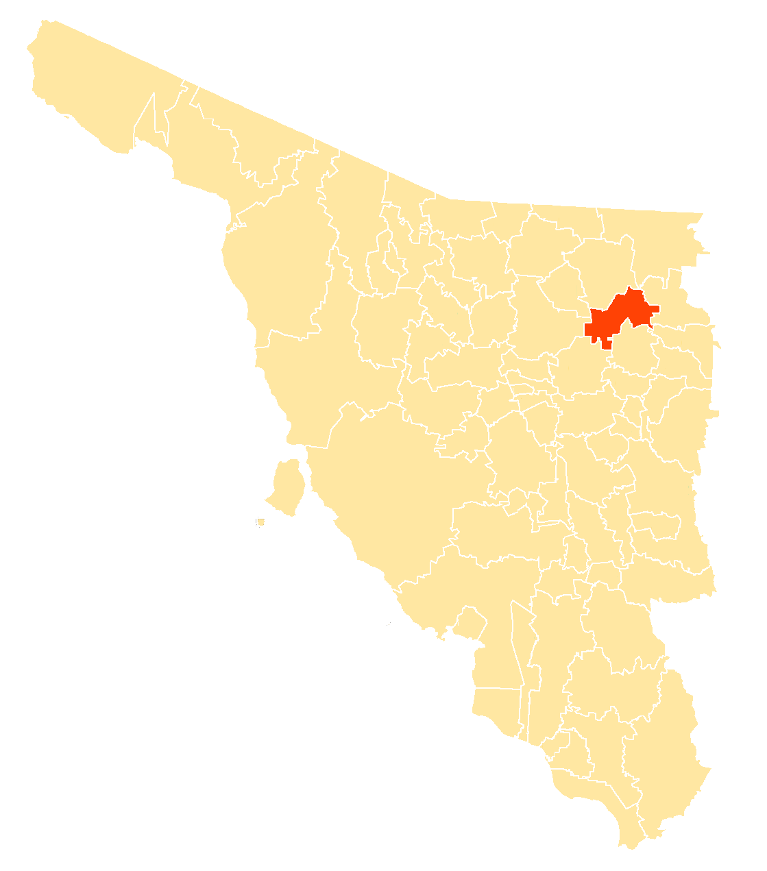 Municipality in Sonora, Mexico.